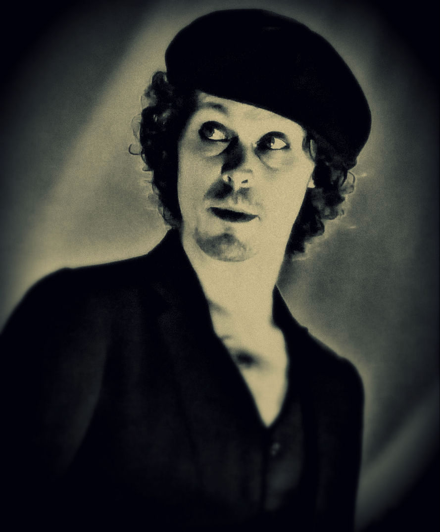 Ville Valo performing with HIM at the Tuska Open Air Metal Festival on 1 July 2017